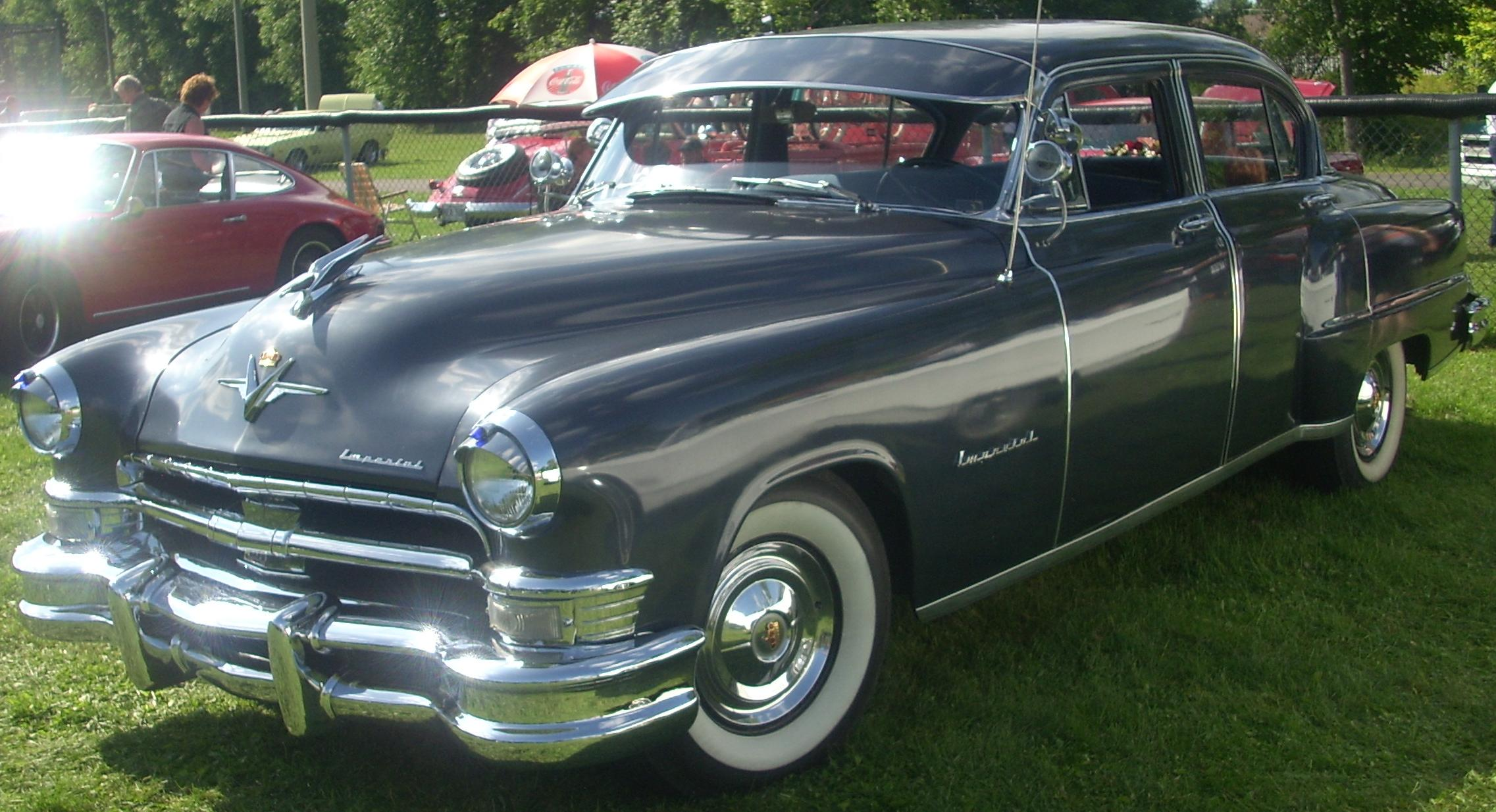 Chrysler Imperial photographed at the Rassemblement Rigaud Car Show.